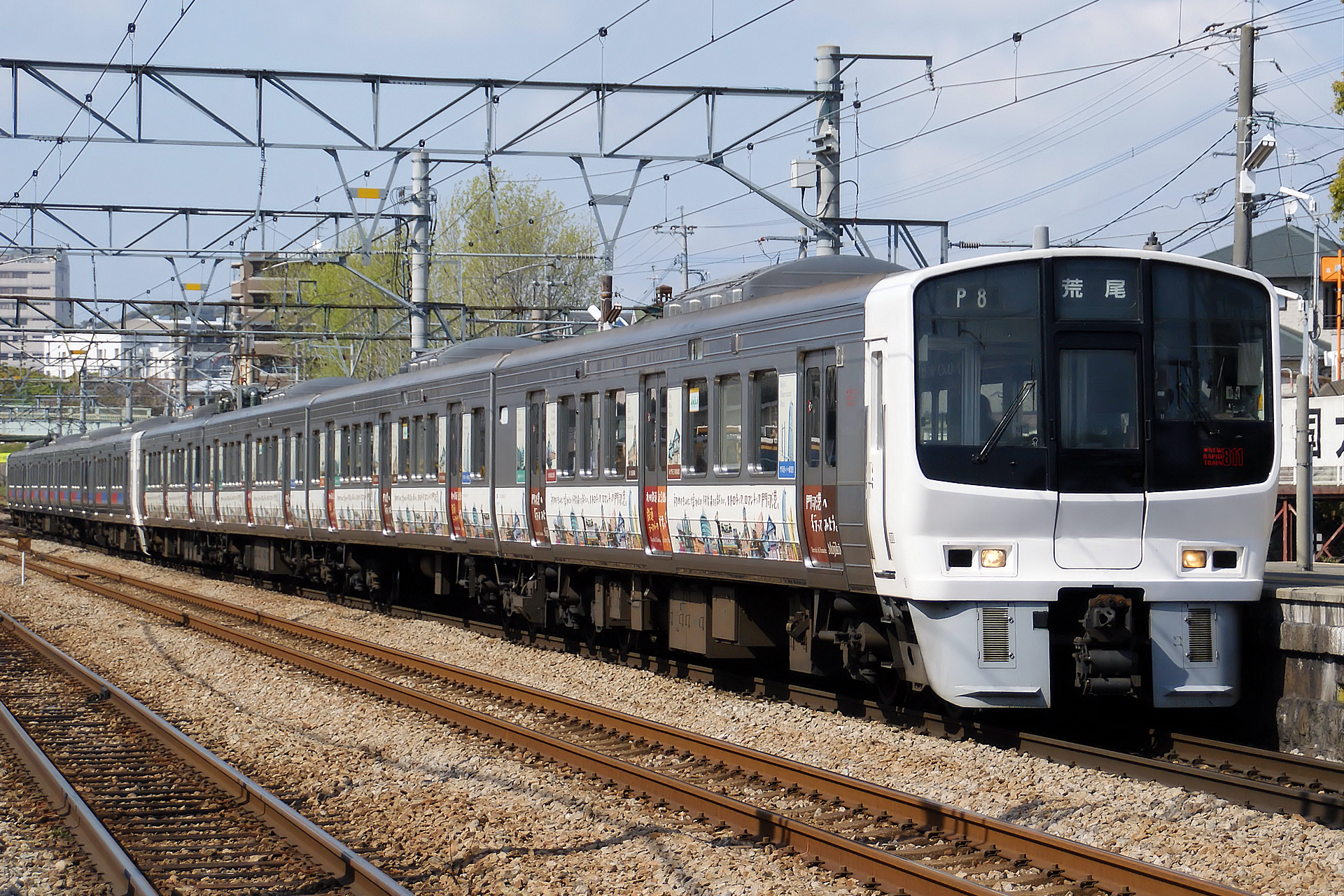 JR Kyushu 811 series EMU set P8 in promotional livery at Kashii Station in Fukuoka Prefecture, Japan